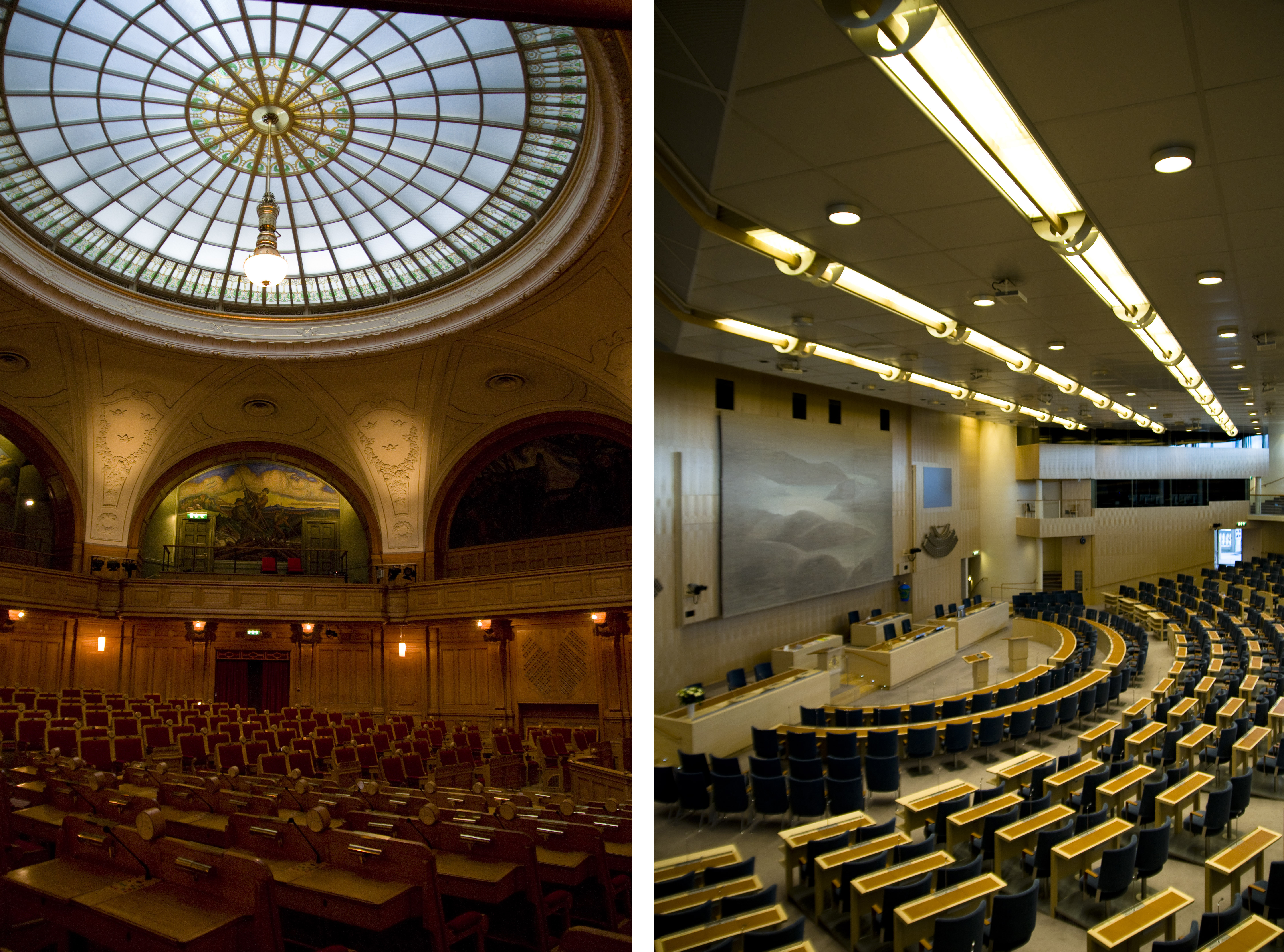 till vänster : gamla riksdagen till höger : ny riksdagen on the left : old swedish parliament chamber on the right : new swedish parliament chamber both are actually in the same building